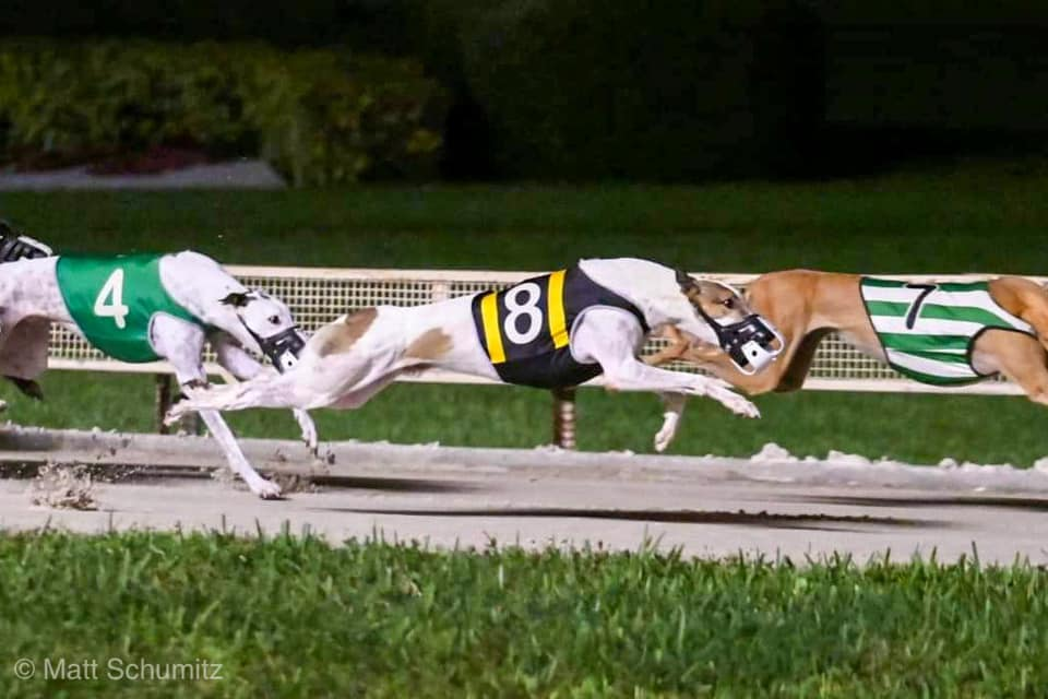 This shows a racing Greyhound in the extended phase of gallop when legs are off the ground and fully extended.